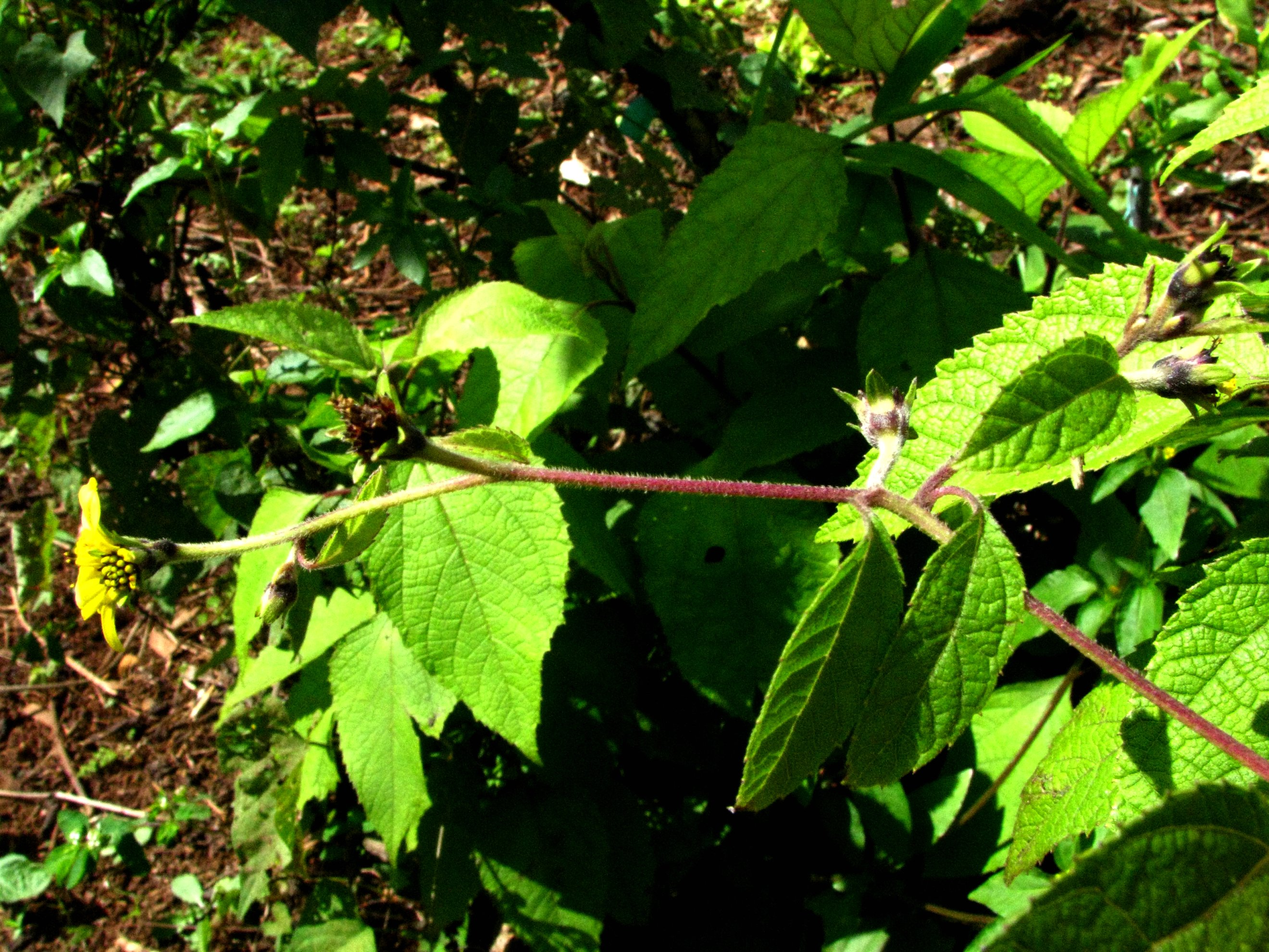 Nehe Asteraceae Endemic to the Hawaiian Islands (Kauaʻi only) Endangered Kauaʻi (Cultivated) Photo is a bit overexposed, but shows a stem feature of this plant.